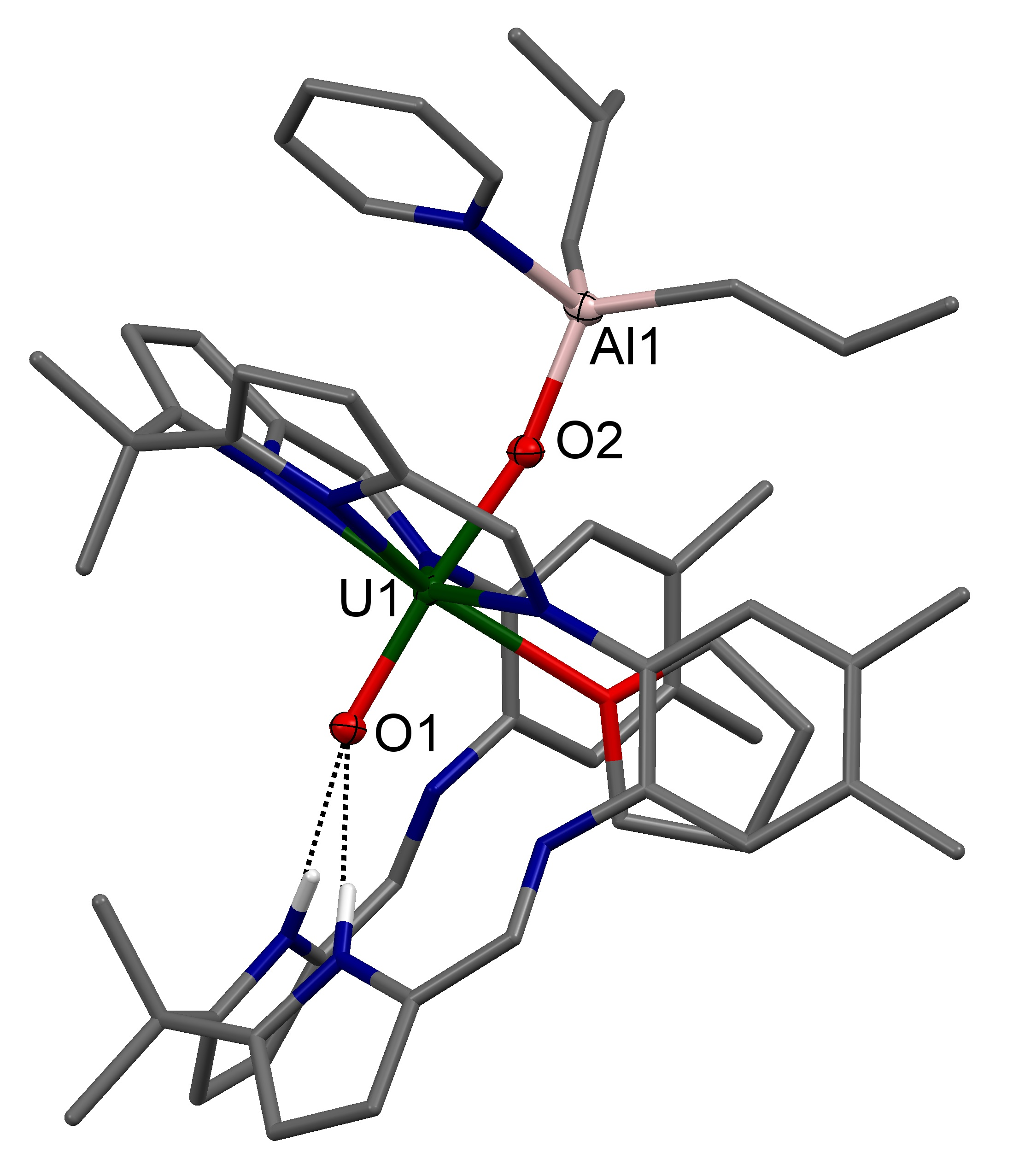 Crystal structure of the diisobutylaluminium-uranyl(V) Pacman complex